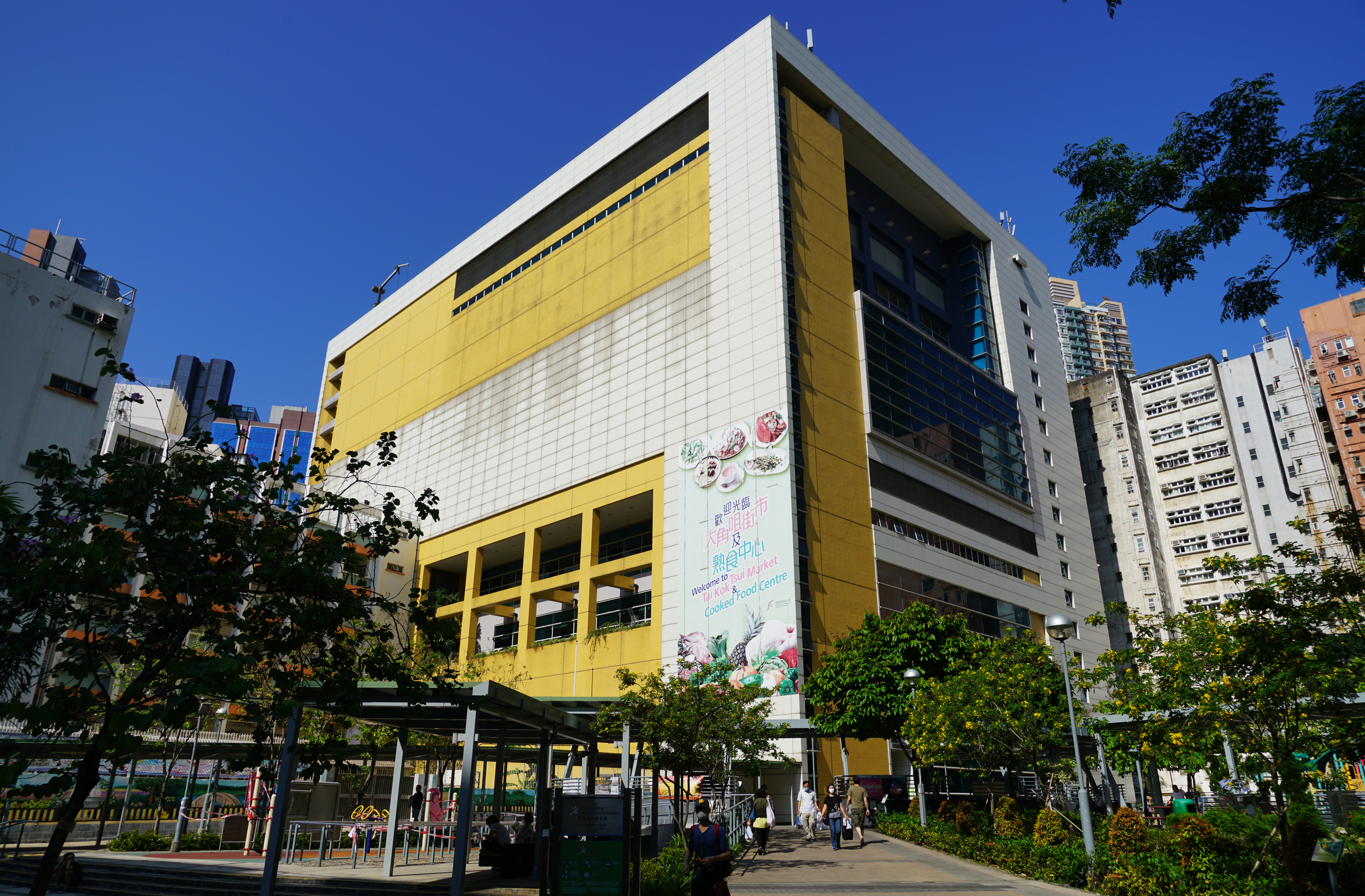 Tai Kok Tsui Municipal Services Building, Hong Kong.